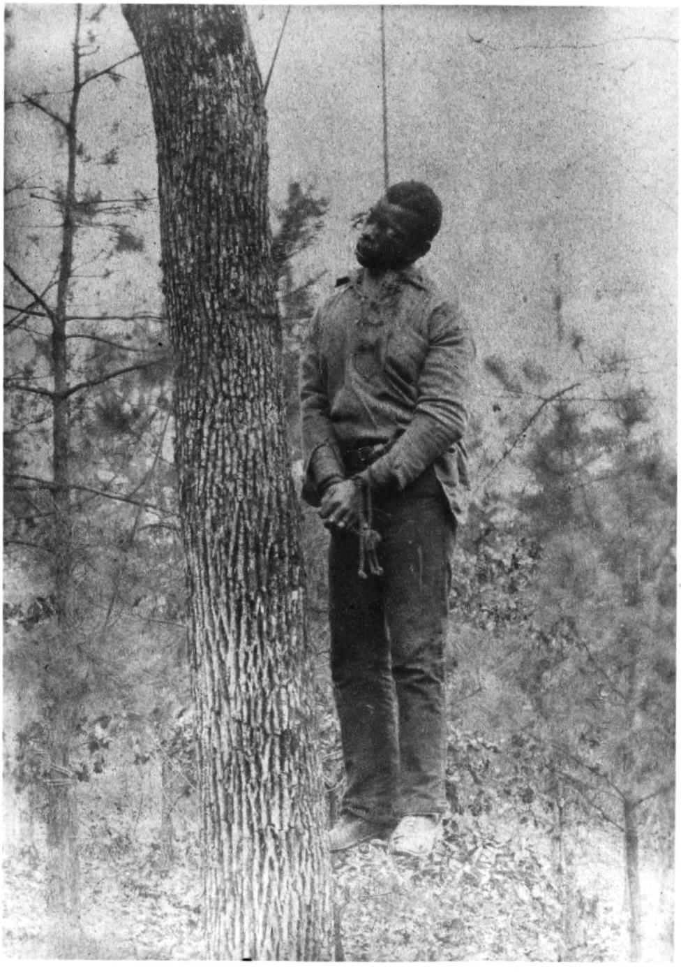 George Meadows, "murderer & rapist," lynched on scene of his last alleged crime. George Meadows was lynched at Pratt Mines (in Jefferson County) Alabama January 15 1889 [1]